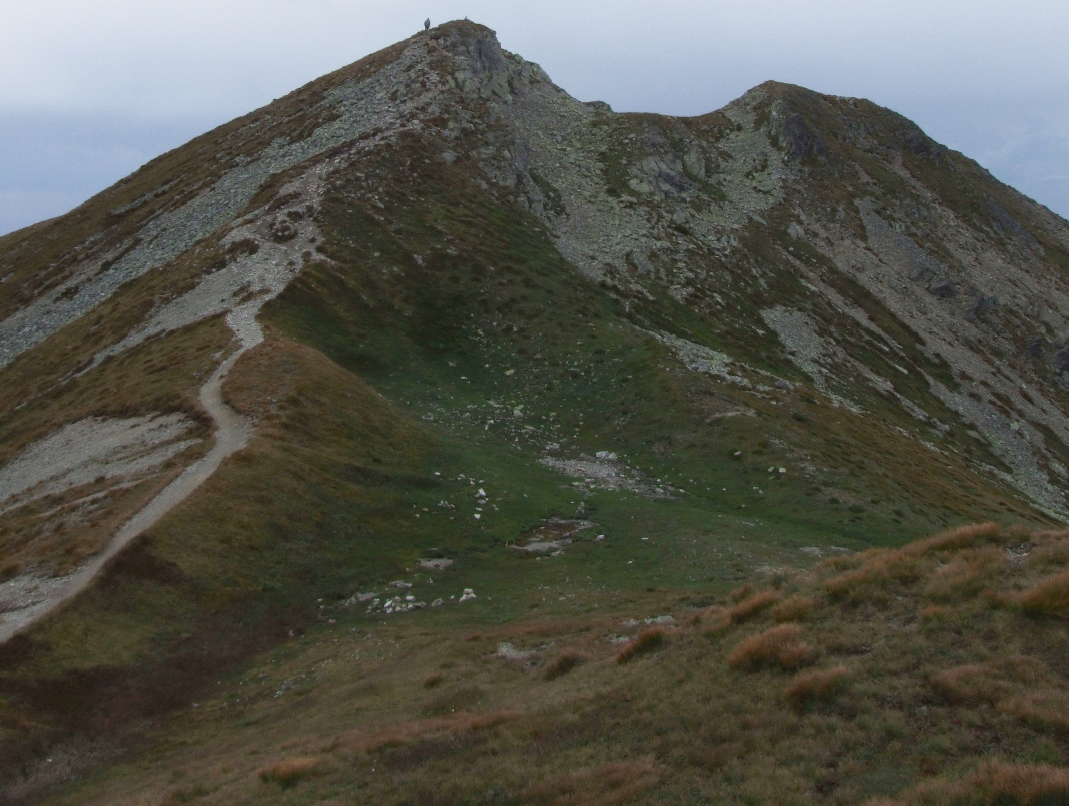 Salatyn (West Tatra Mountains)